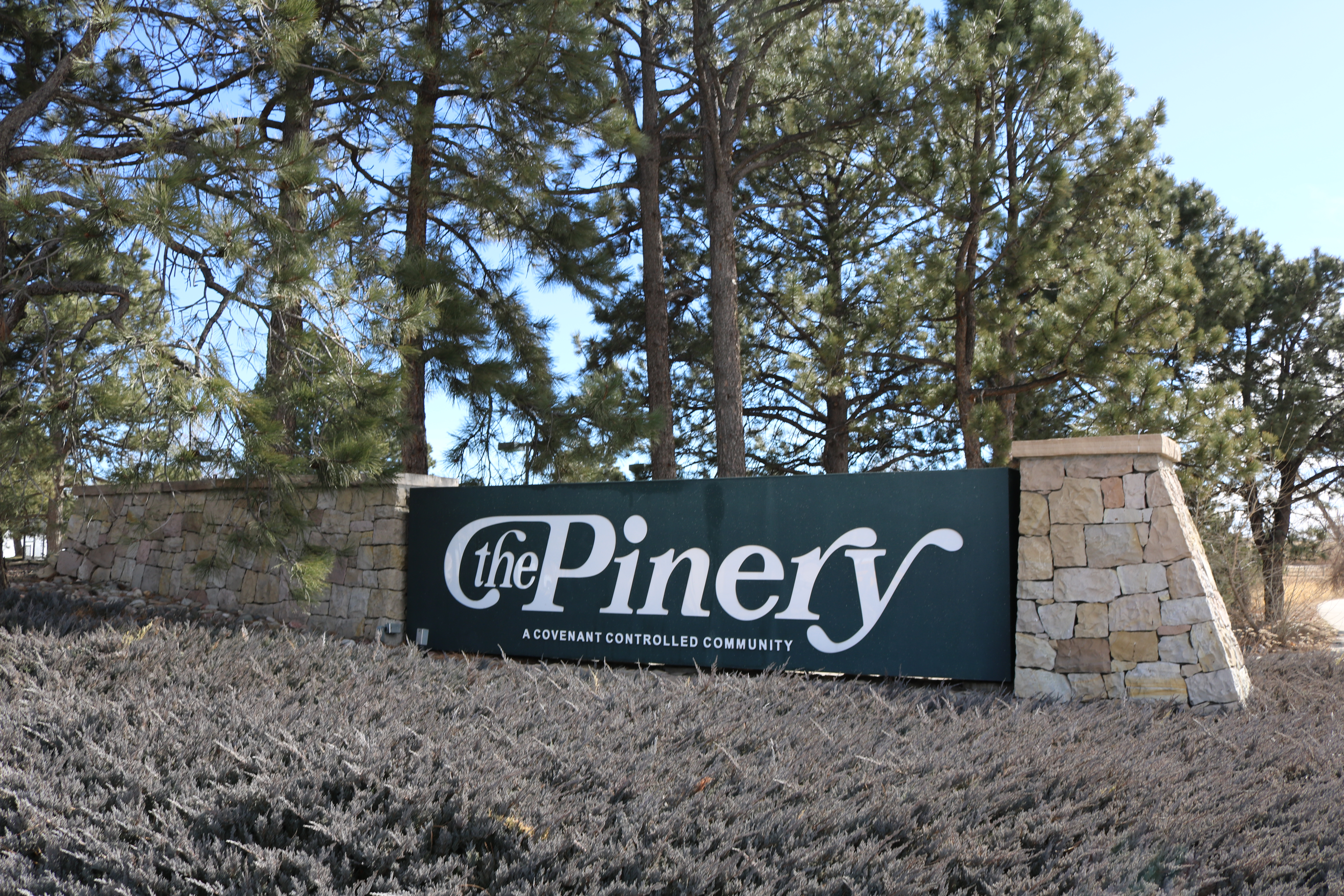 One of the signs for The Pinery, a census-designated place in Douglas County, Colorado.